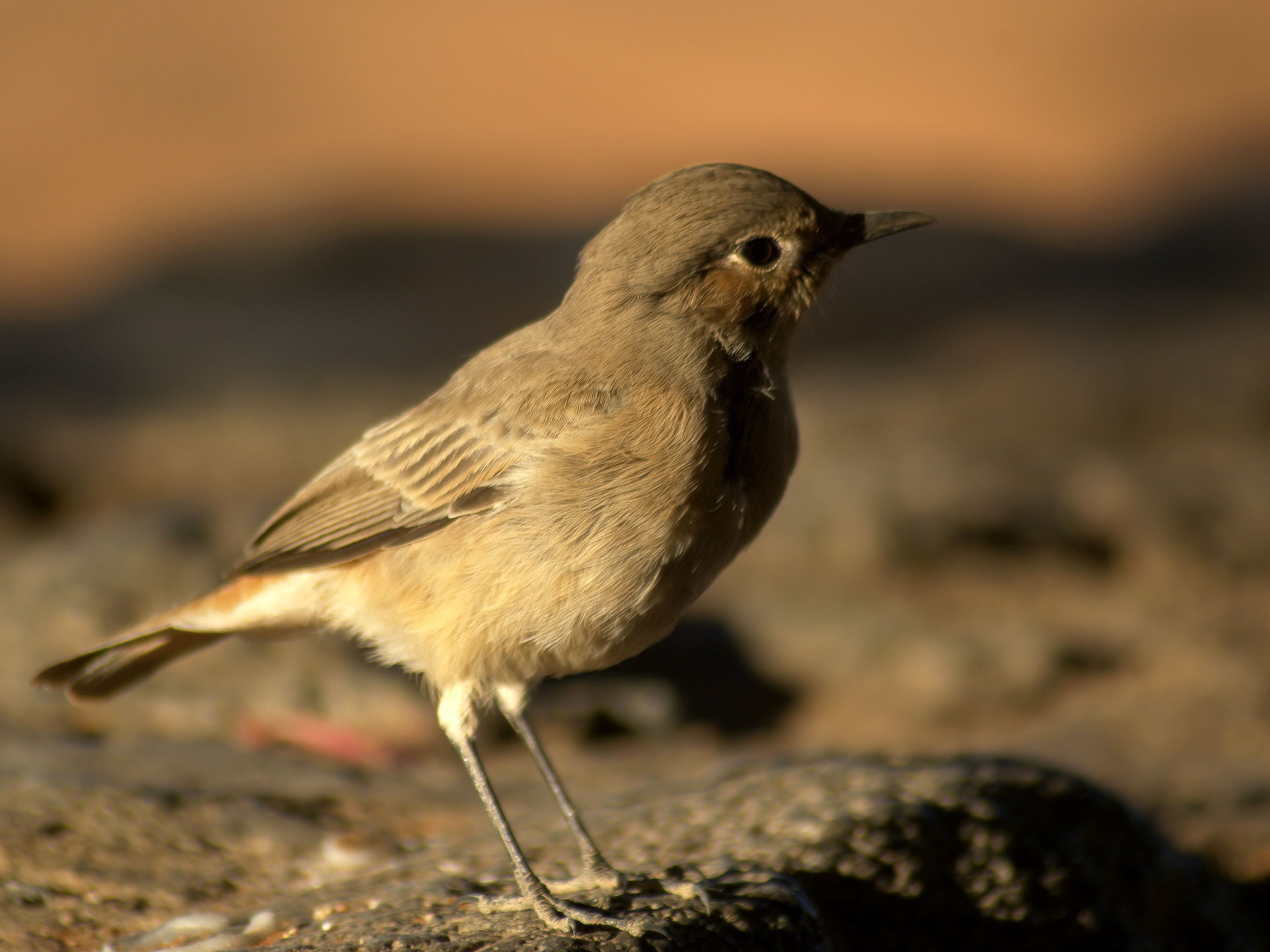 A Familiar Chat at Hardap Dam in Namibia